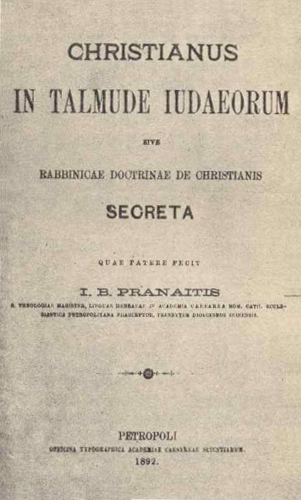 Book cover of Christianus in Talmude Iudaeorum by Justinas Pranaitis (